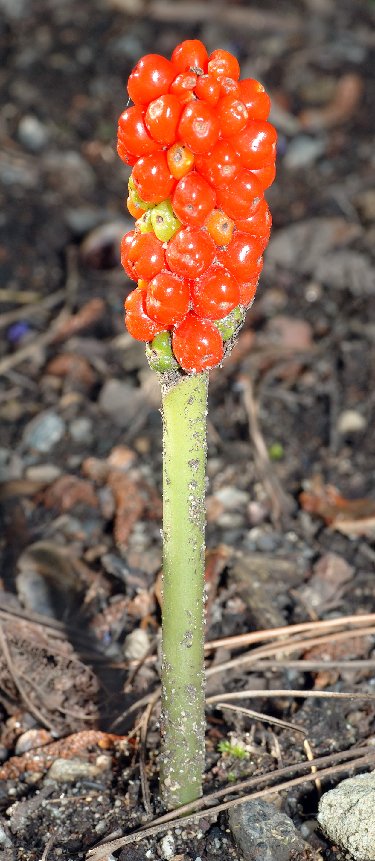 This image shows an Italian arum plant (Arum italicum).